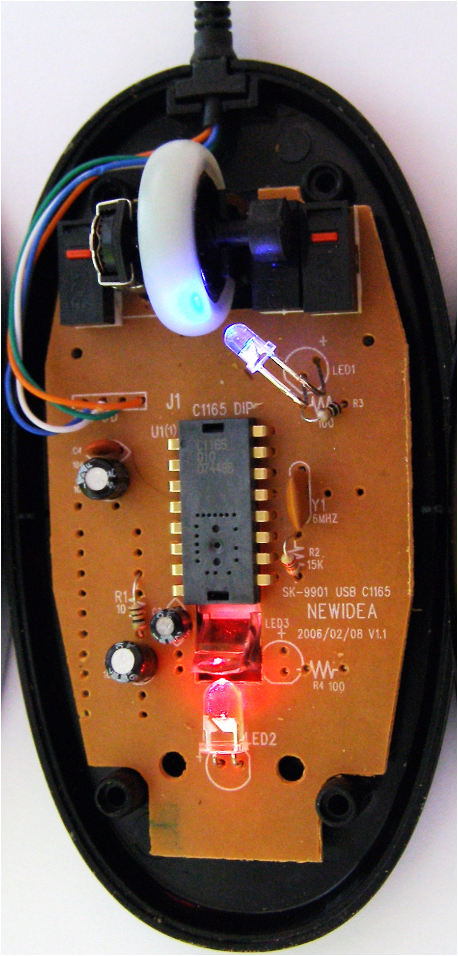 Photograph of an optical mouse with the cover removed to show the inter workings.